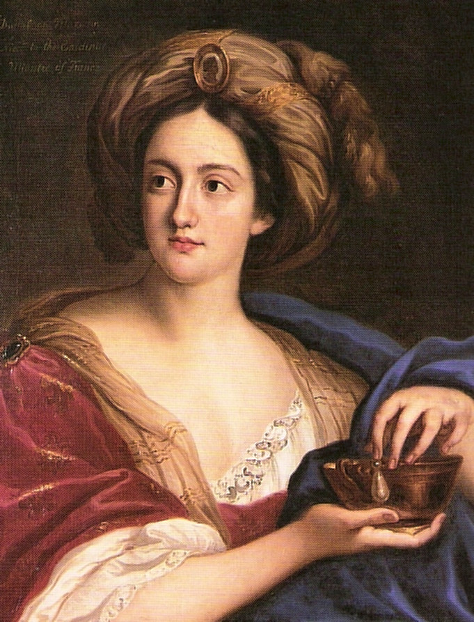 Portrait of Hortense Mancini (1646-1699), Duchess of Mazarin, as Cleopatra